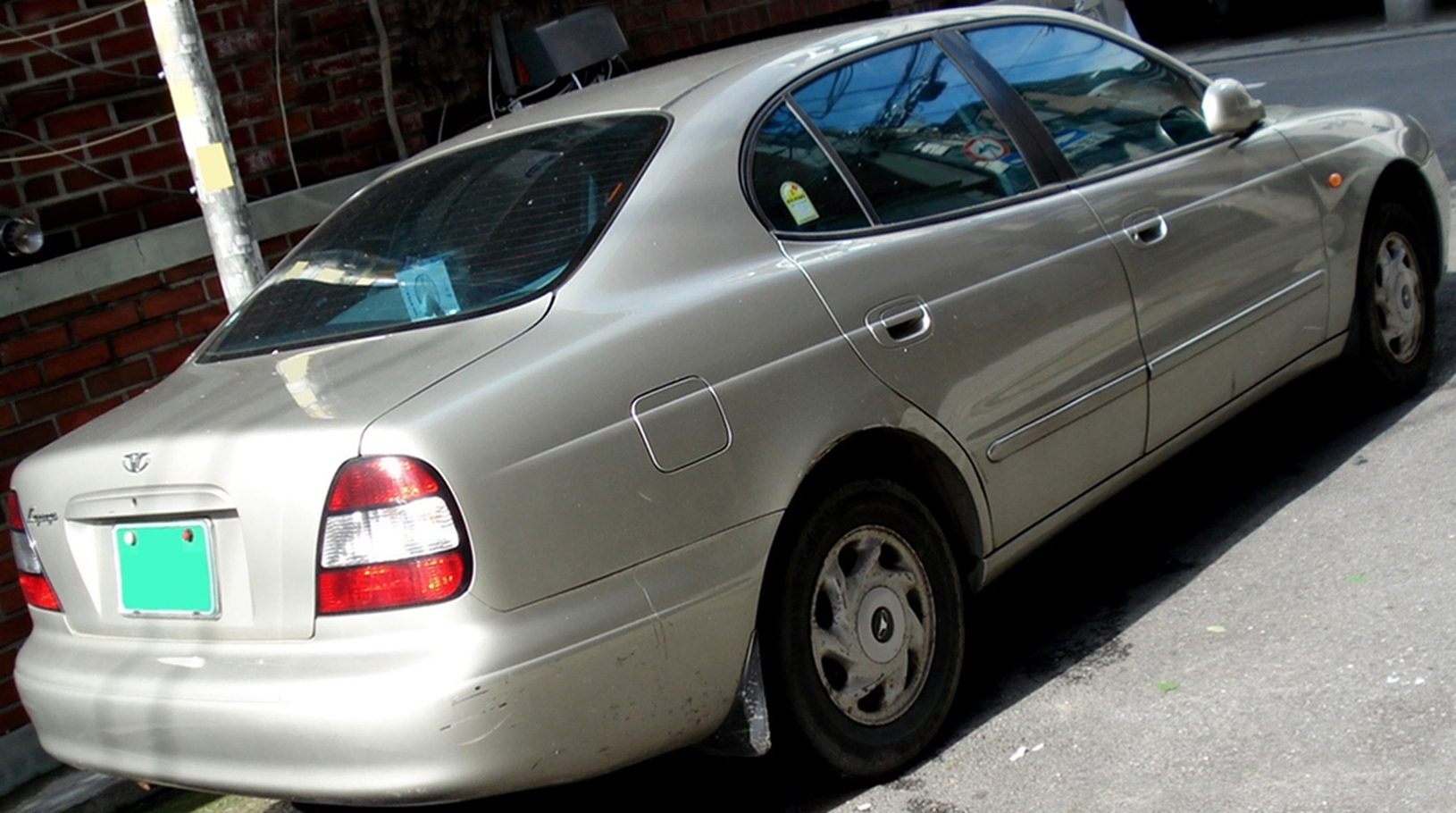 Daewoo Leganza